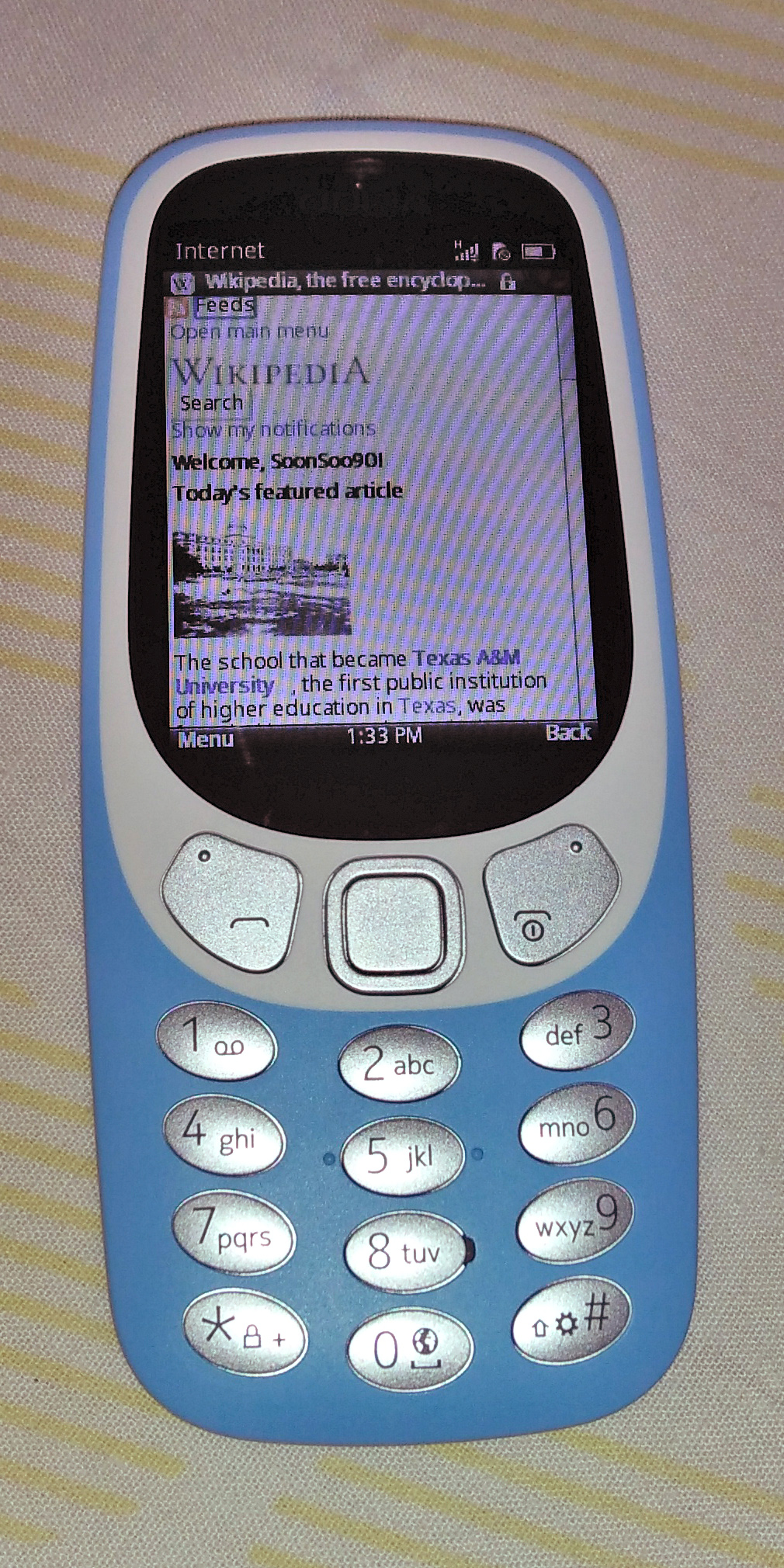 Nokia 3310 3G on internet